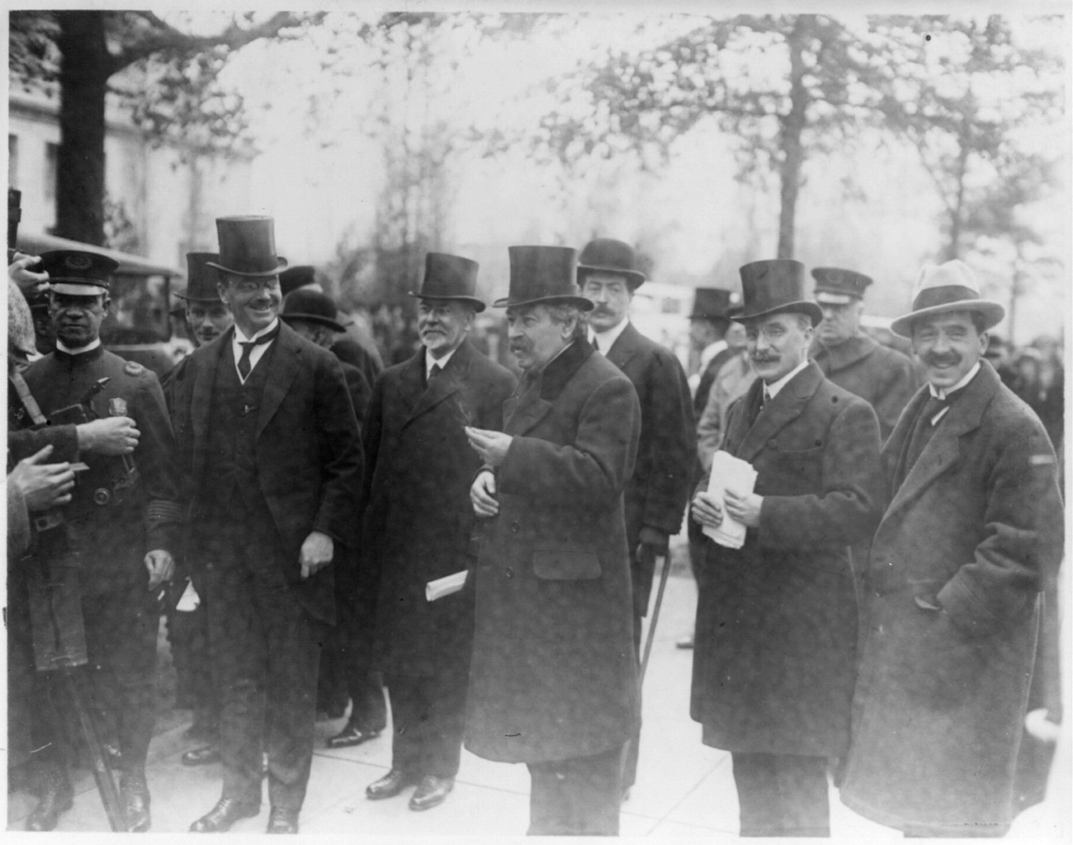 Title: Members of World Disarmament Conference, Washington, D.C. 1921 Abstract/medium: 1 photographic print.